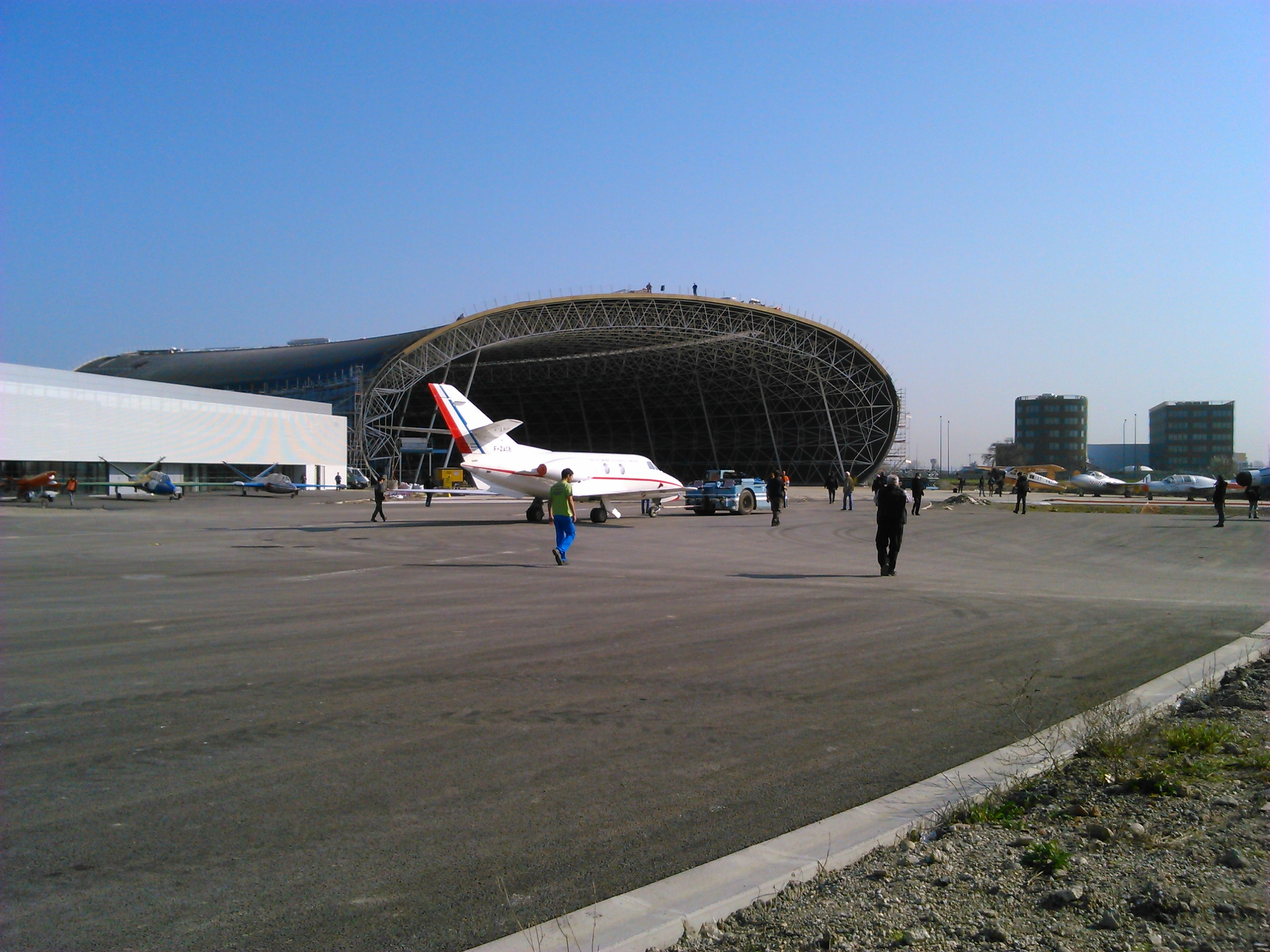 Arrival of the first aircraft in the museum Aeroscopia, the Dassault Falcon 10 F-ZACB of Ailes Anciennes Toulouse.